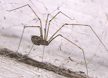 female Physocyclus globosus from Okinawa.